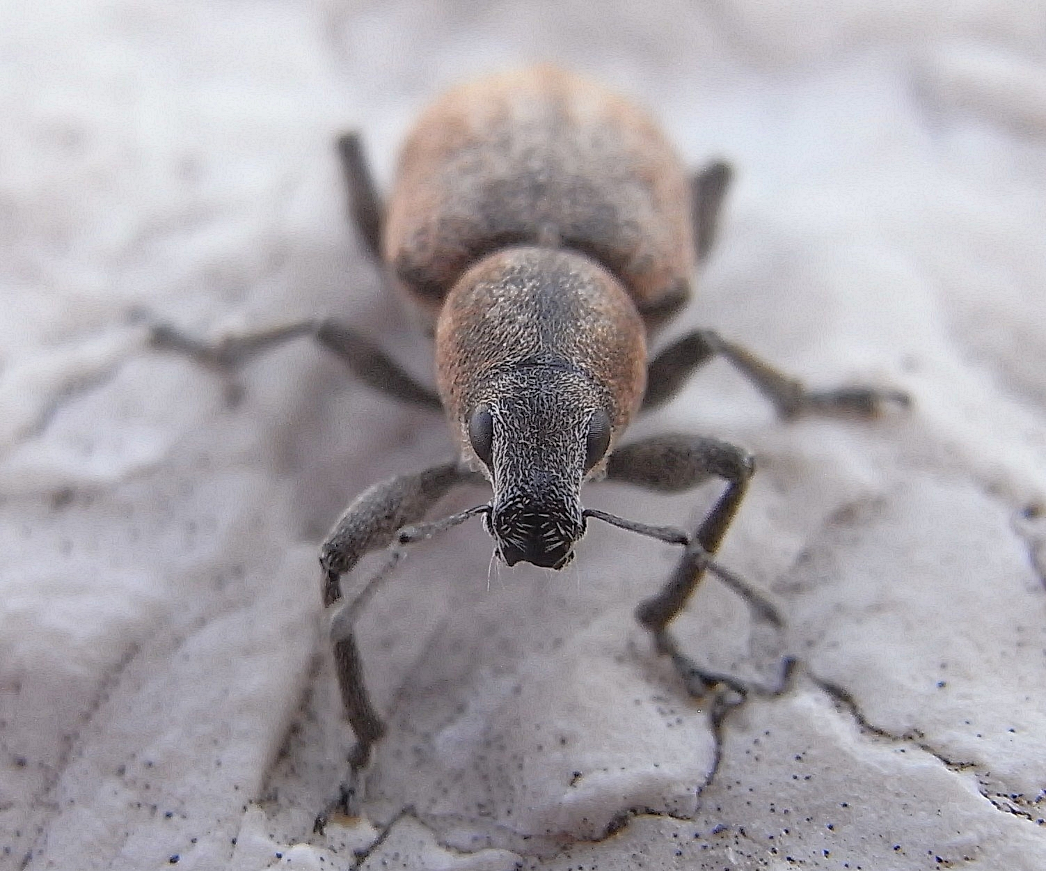 Tanymecus palliatus from Hungary, near Villany at 2010-05-07 Ricoh R8